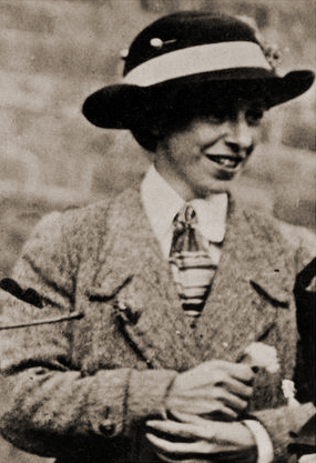 Photograph of Mary Raleigh Richardson taken by a Scotland Yard detective